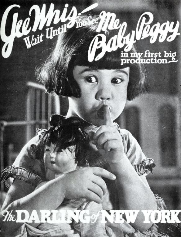 Advertisement for the American comedy film The Darling of New York (1923) with Diana Serra Cary aka Baby Peggy, on the inside back cover of the October 20, 1923 Universal Weekly.